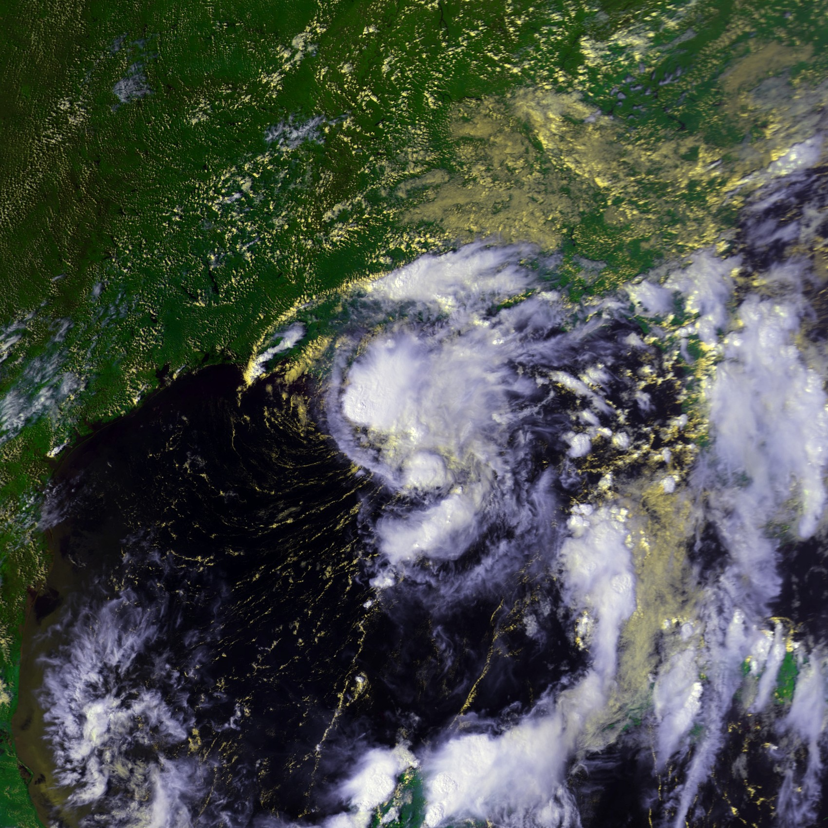 Tropical Storm Hermine at peak intensity on September 19 at 2041 UTC. This image was produced from data from NOAA-14, provided by NOAA. Maximum sustained winds were 45 mph.